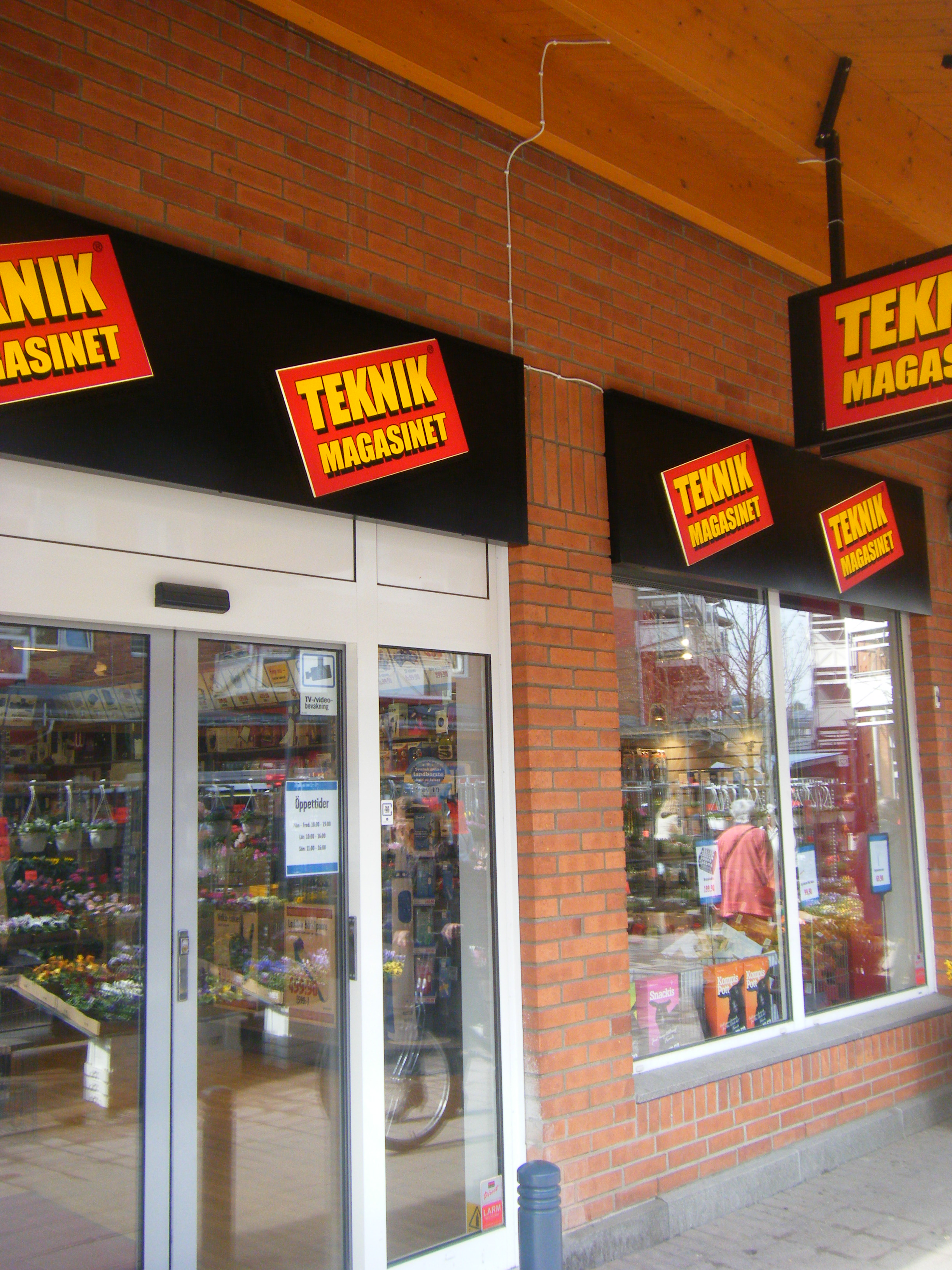 The store Teknikmagasinet